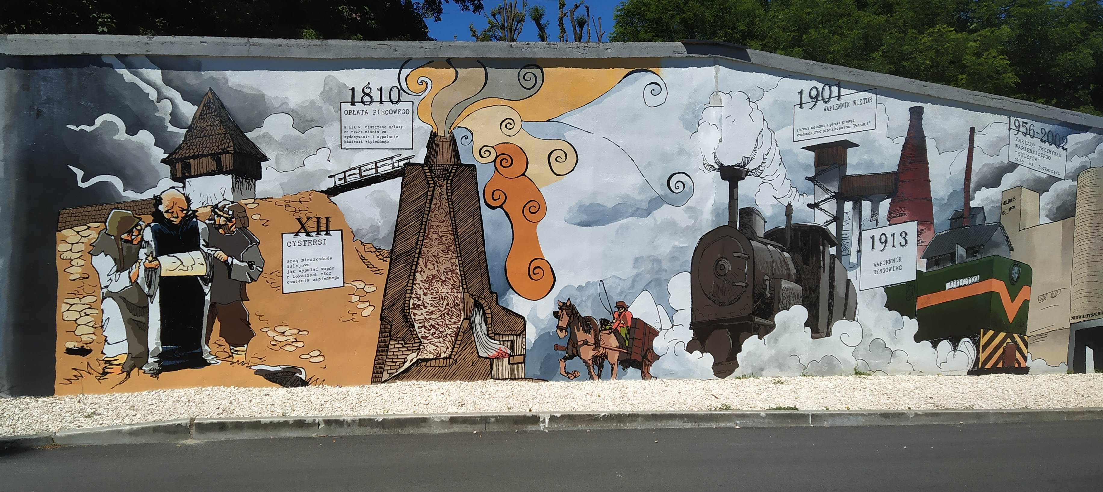 Mural in Sulejów (Lodz Woivodship) about history of the limestone industry in the city